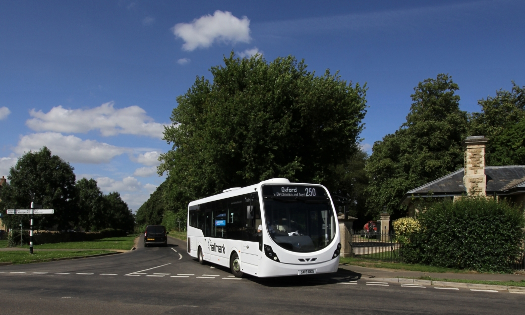 A Hallmark bus on route 250 at Bletchingdon, Oxfordshire, turning from Springwell Hill into Station Road. The bus is a Wright StreetLite, registration mark SM19 KKS.